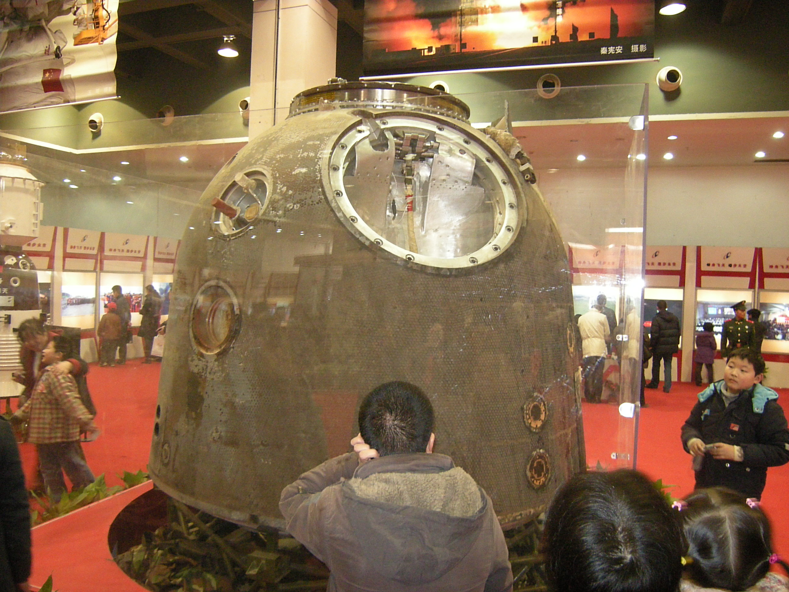 Shenzhou 7 Space capsule